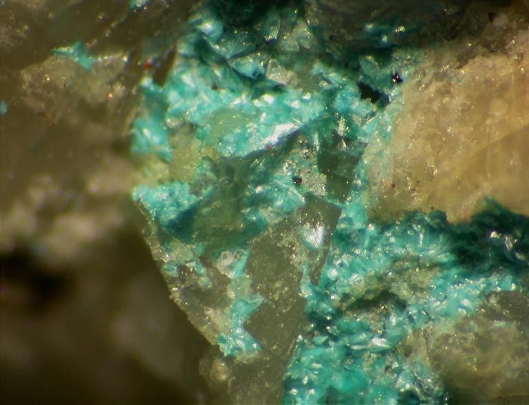 Claraite Locality: Weißer Schrofen, Ringenwechsel District, Schwaz, Brixlegg - Schwaz area, Inn valley, North Tyrol, Tyrol, Austria Field of view 4 mm. Specimen and photo Leon Hupperichs.